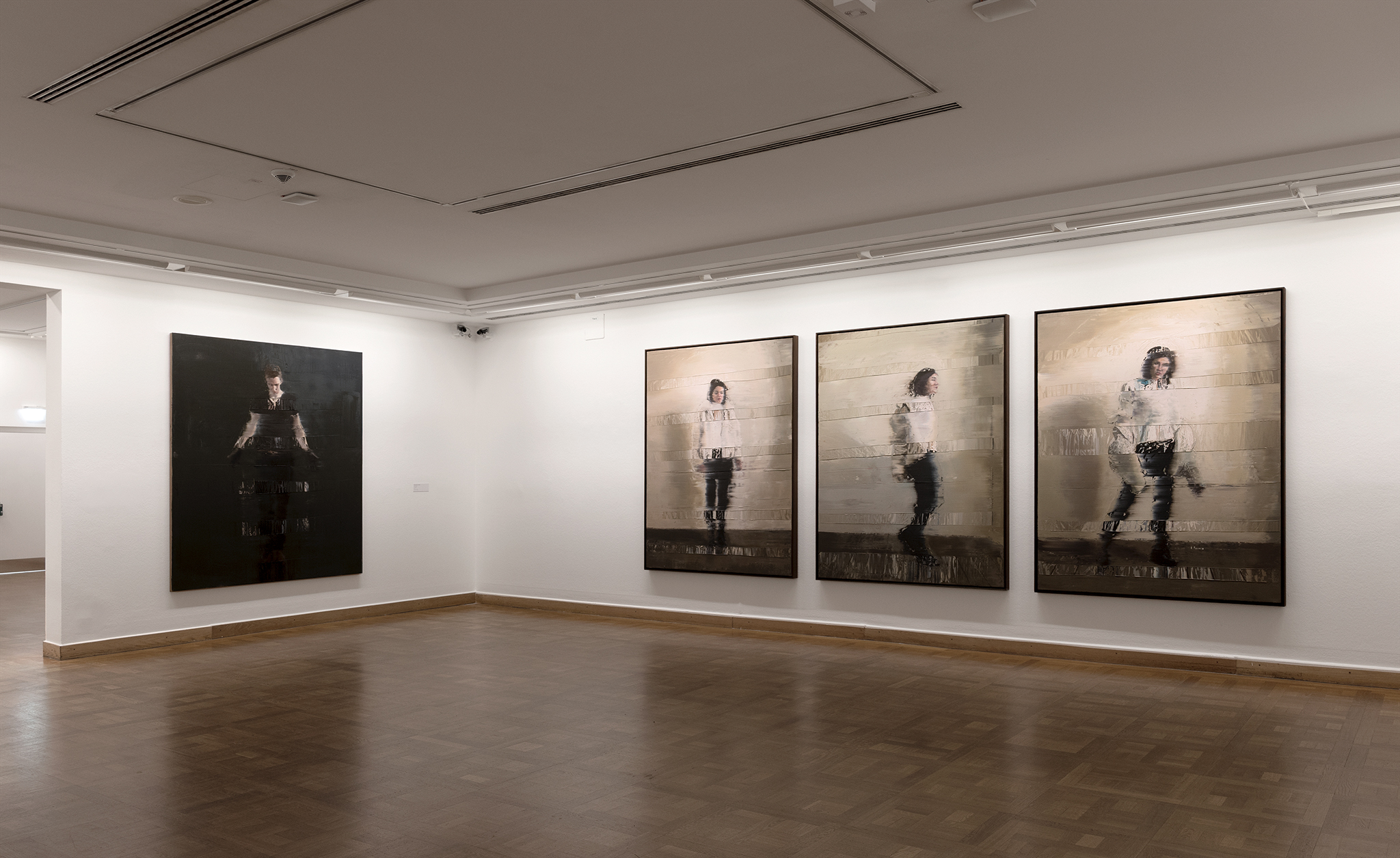 Installation View The Dark Corner of the Human Mind, Andy Denzler, Kunstforum Wien 2018